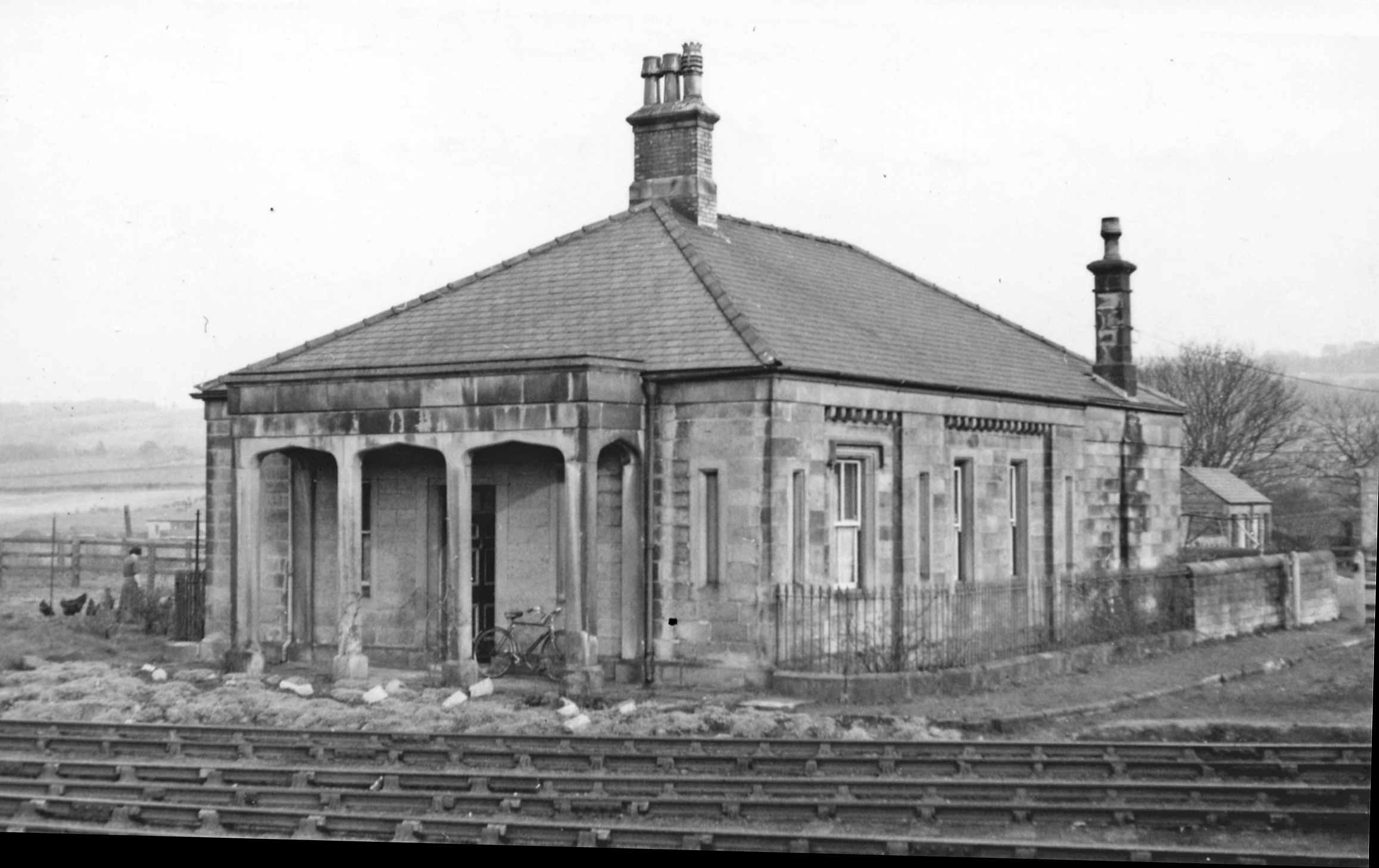 Haydon Bridge: the original station house of June 1836, 1956View southward, just east of the present station. This was the terminus from Newcastle, between June 1836 and June 1838, of the Newcastle & Carlisle Railway, which was built in stages, opened throughout on 18/6/38 and not amalgamated with the North Eastern Railway until July 1862.